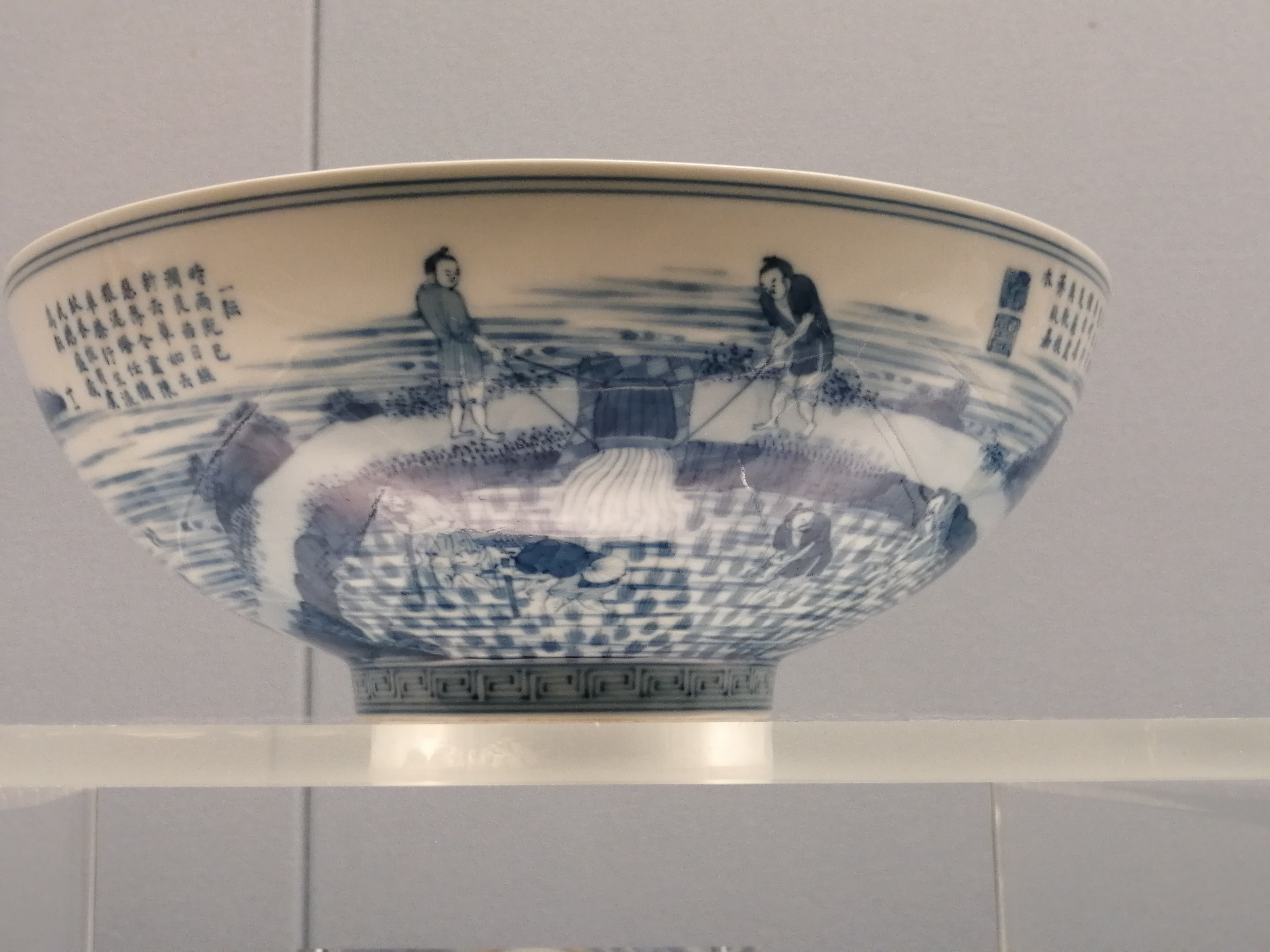 Bowl with underglaze blue design of farming and weaving, jindezhen ware, Kangxi reign, Shanghai museum